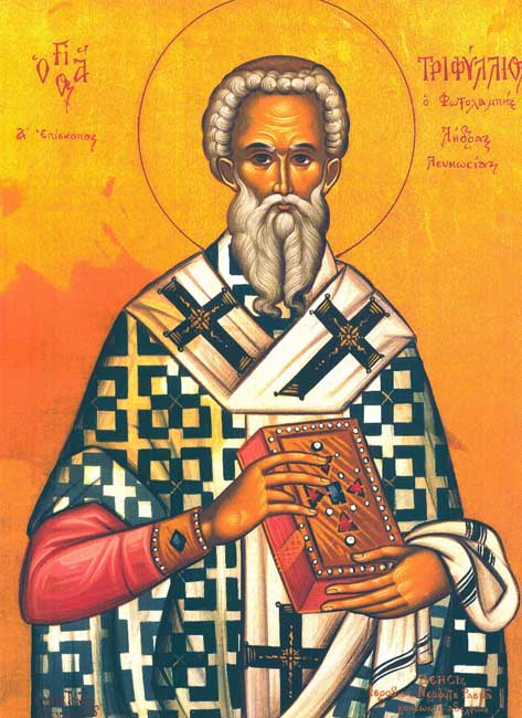 Saint Triphyllius Greek or Russian orthodox icon.